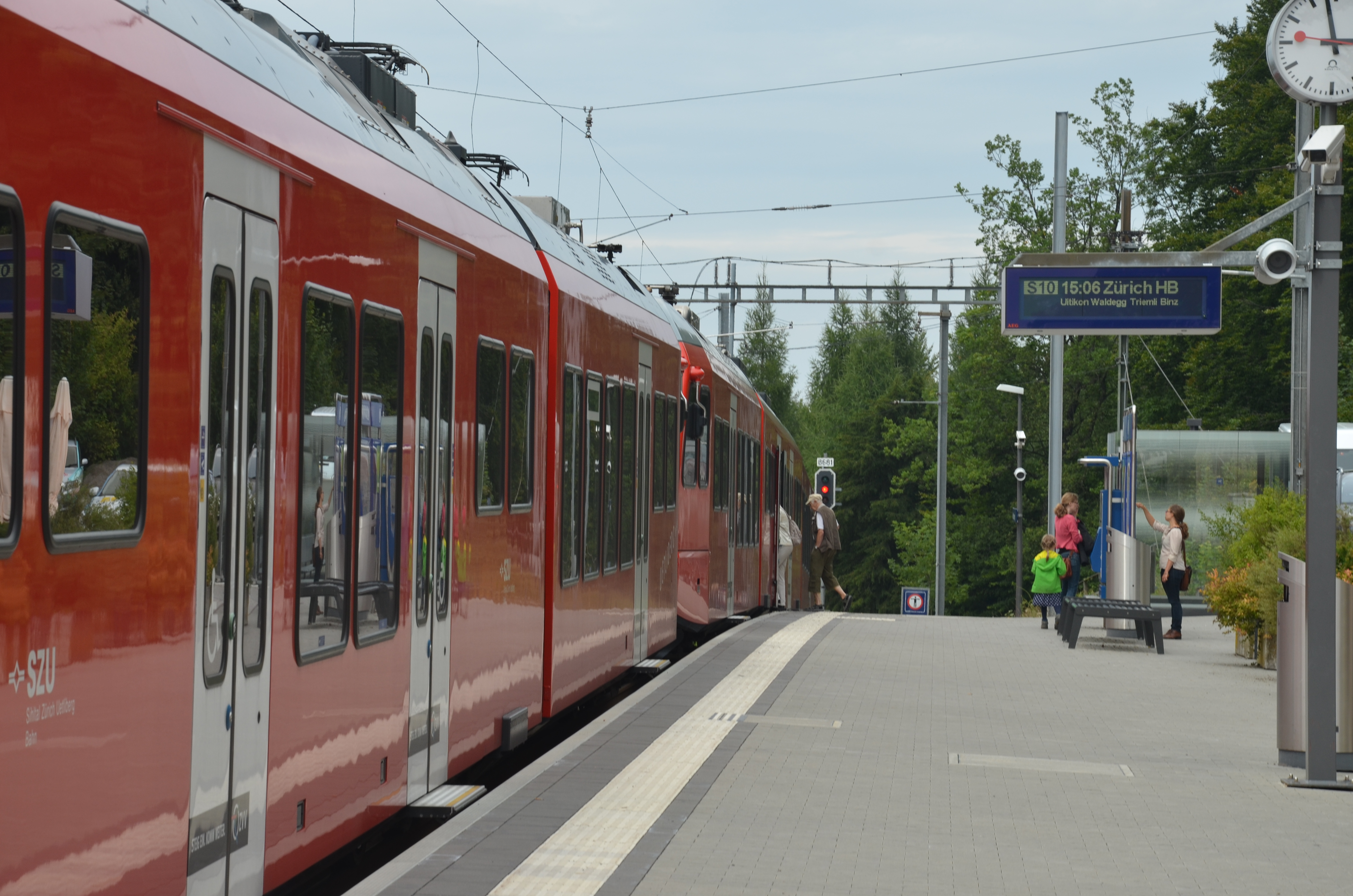 S10 EMU at Uetliberg station.